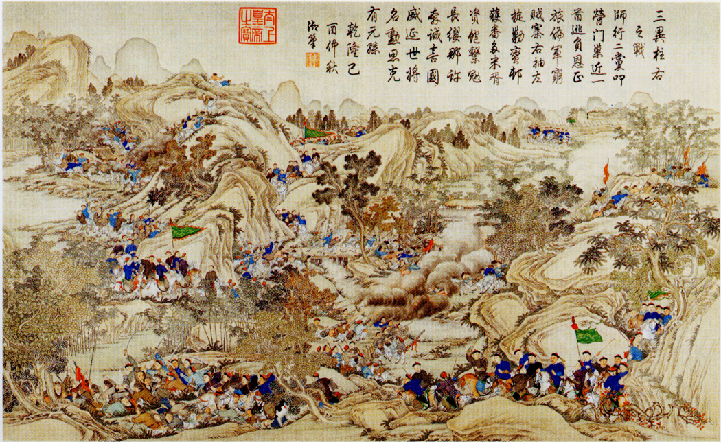 A scene of the Chinese Campaign against Annam (Vietnam) 1788 - 1789